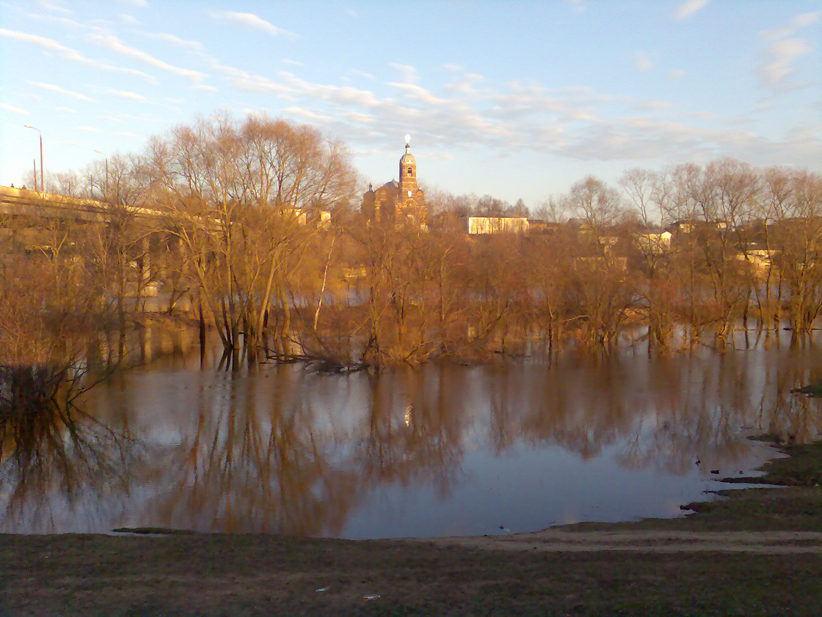 Spring Klyazma River in Kovrov, Vladimir Oblast, Russia.